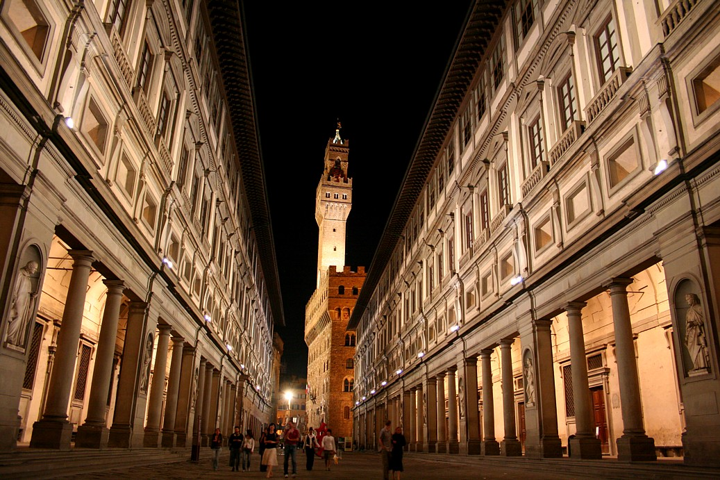 Uffizi Gallery, Florence